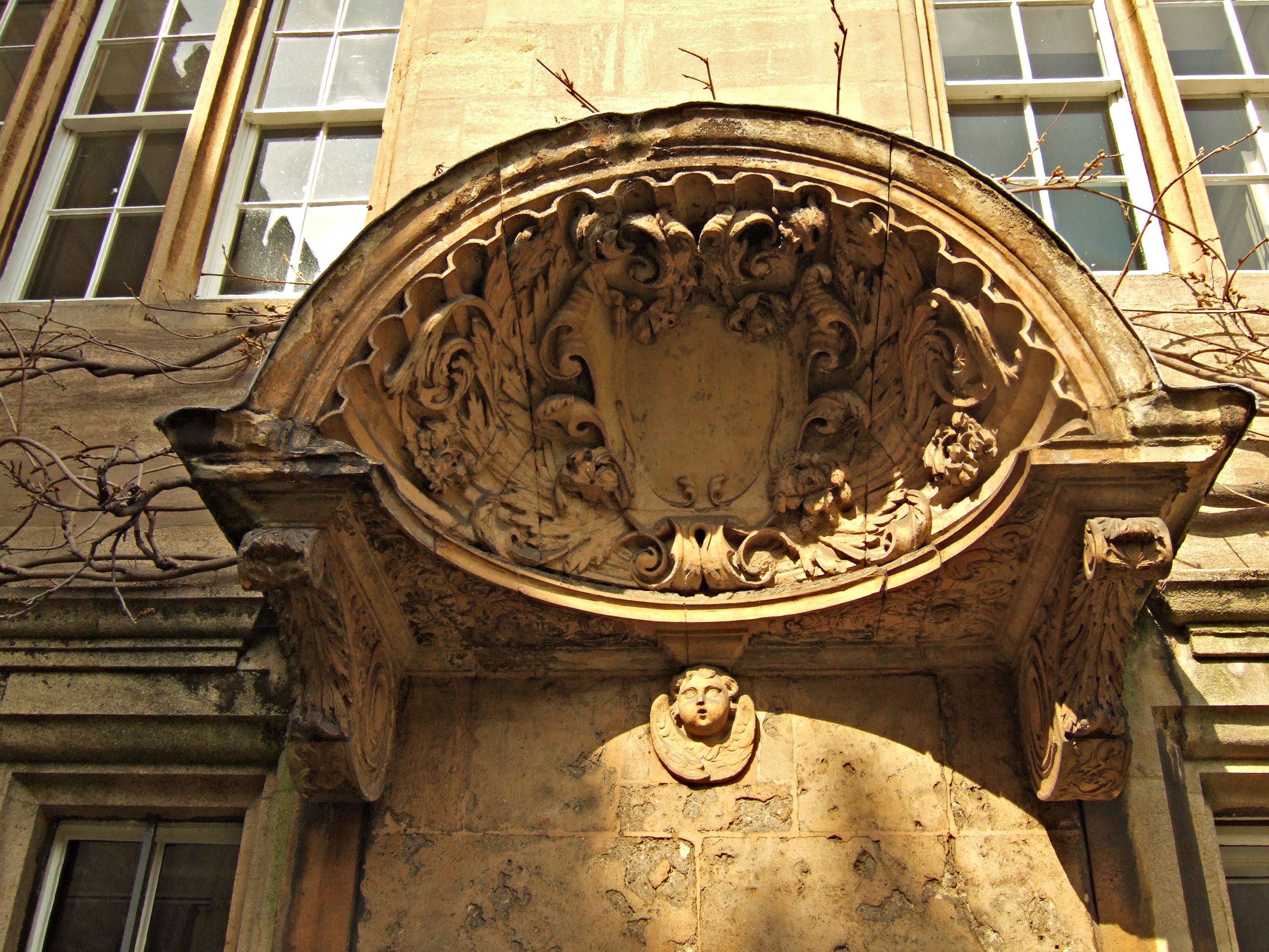 The shell-hood canopy above the doorway to the Principal's lodgings at Jesus College, Oxford (dated to about 1700).